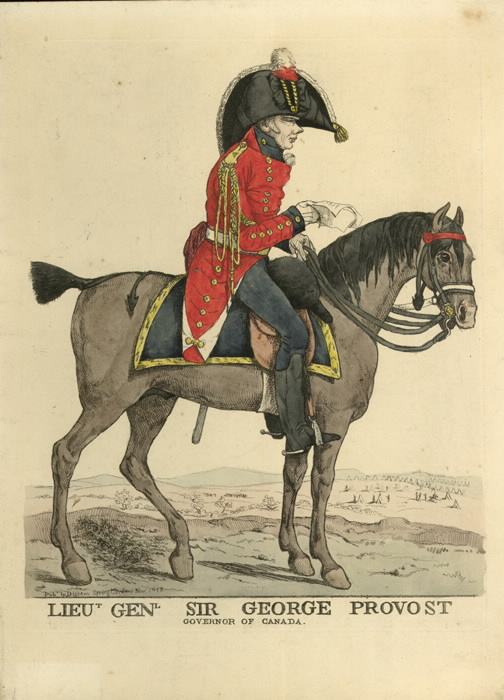 Sir George Prevost (1767-1816), first Baronet, was a Lieutenant-Governor of Nova Scotia, between 1808 and 1811, and Governor-in-Chief of British North America from 1811 to 1815. Note the typographical error on this print. Creator: Robert Dighton (British, 1752-1814) Date: 1812 Identifier: JRR 1623 Format: Picture Rights: Public domain Courtesy: Toronto Public Library . More information: (view details and larger image)